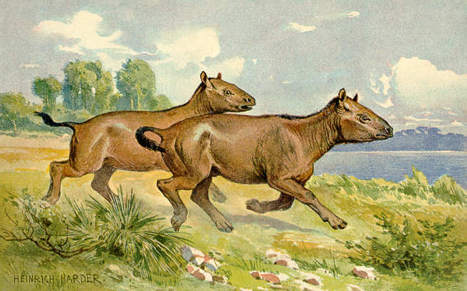 Palaeotherium